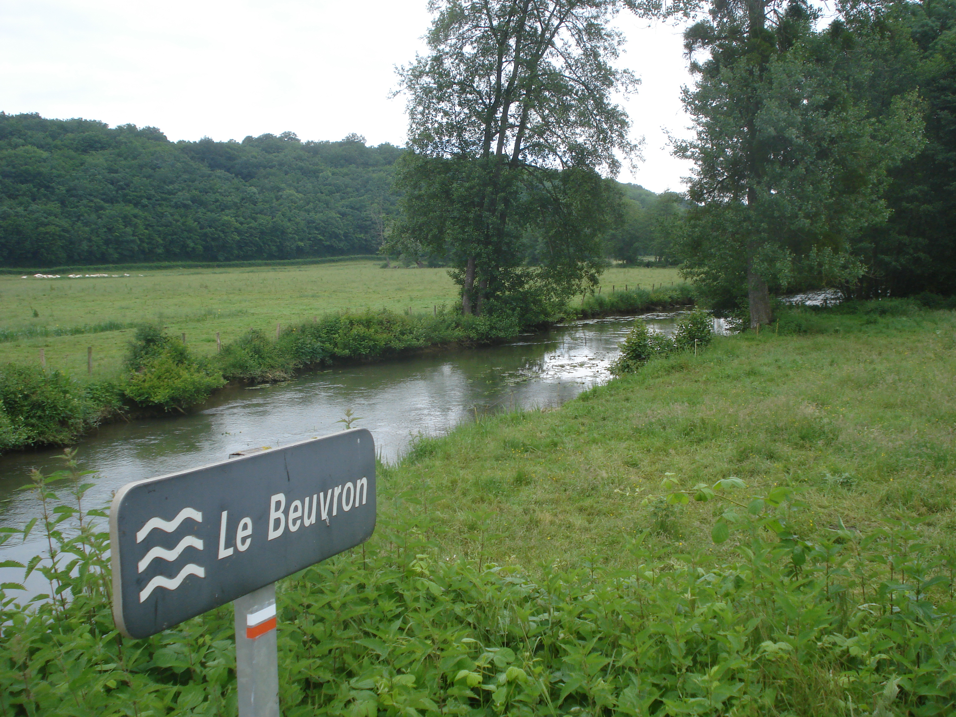 Beuvron, river of Nièvre, at Thurigny, municipality of Saint-Germain-des-Bois, Fr.